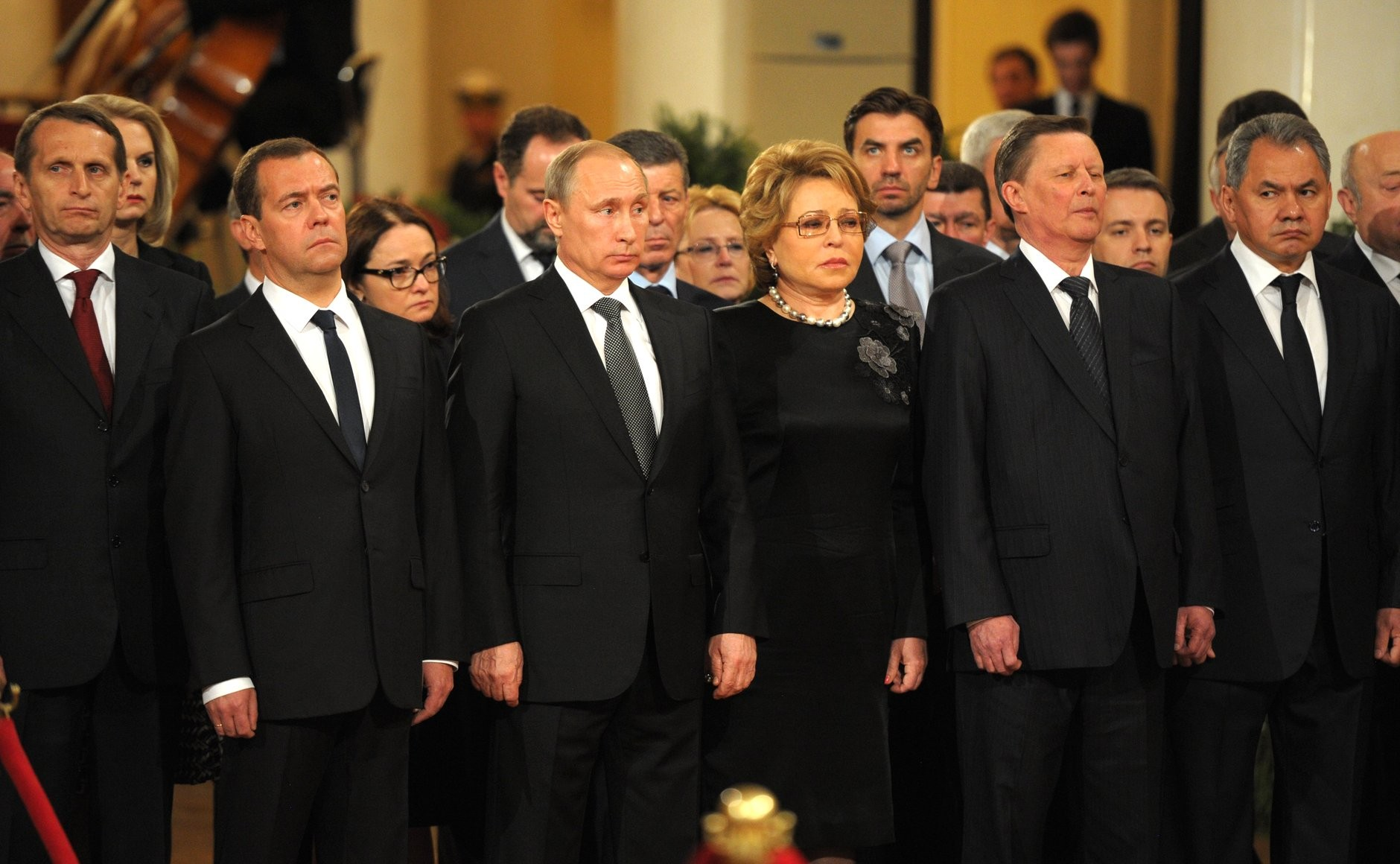 Farewell to Yevgeny Primakov